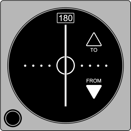 A typical VOR cockpit display (omni bearing indicator)